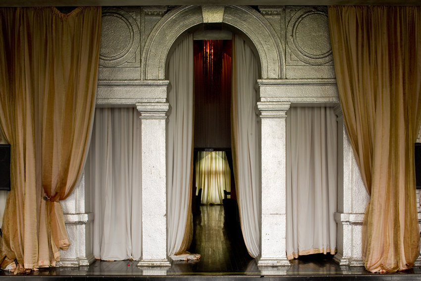 This is an arch that remains from the Shanghai Art Museum building. It was built some time in the 1950's.